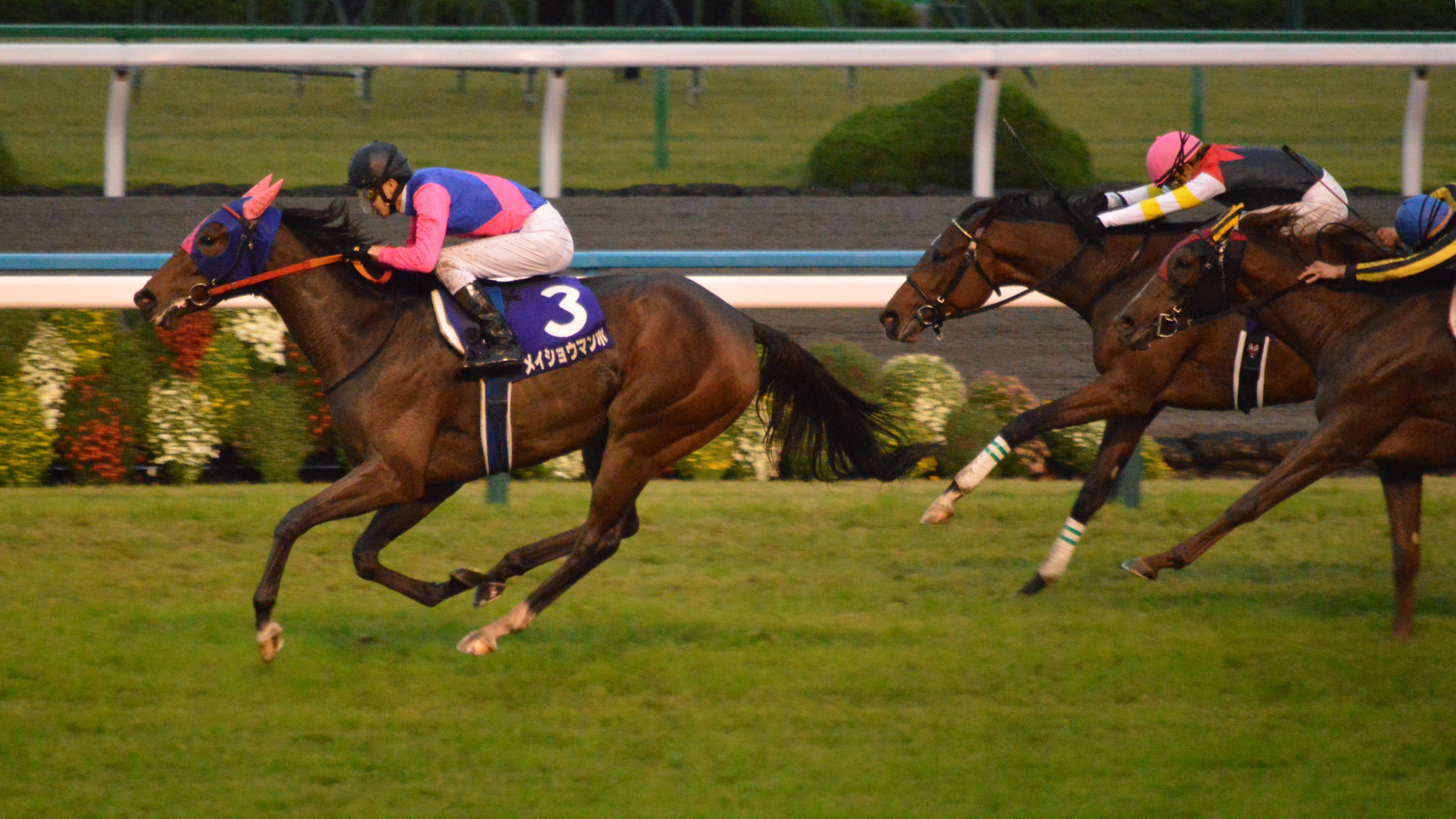 Japanese race horse Lachesis at Kyoto racecourse.